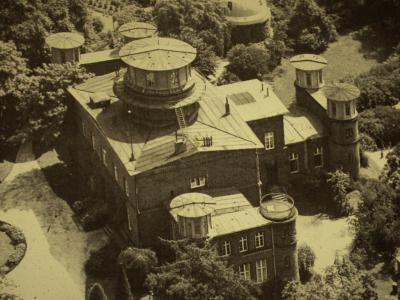 Sternwarte Bonn